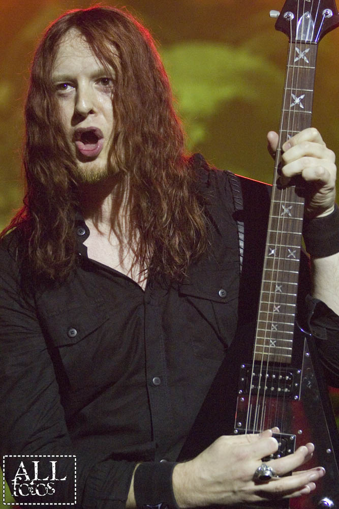 Michael Amott from Arch Enemy, Via Funchal - São Paulo, Brasil